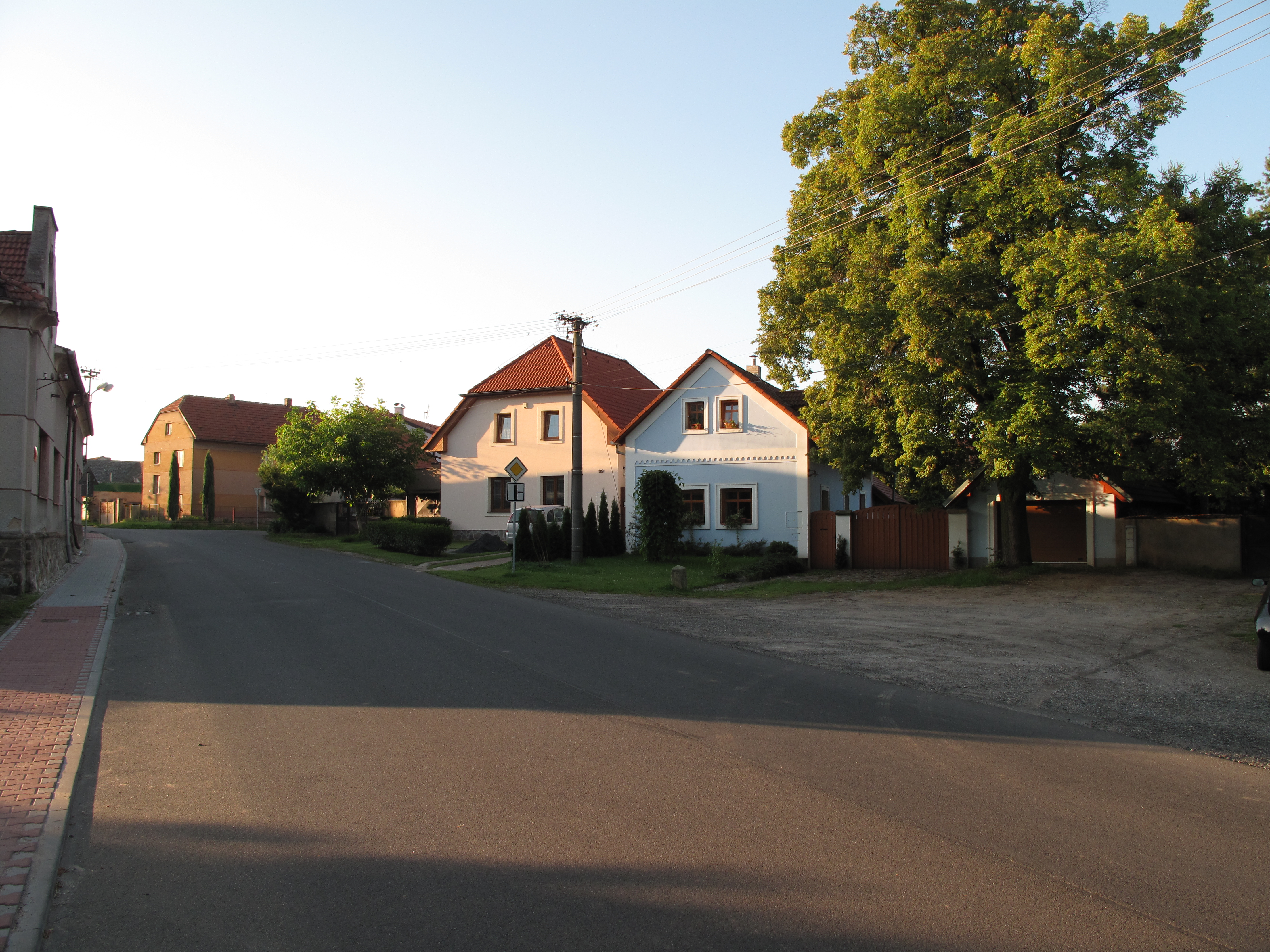 Village square in Klučov village, Kolín District, Czech Republic.